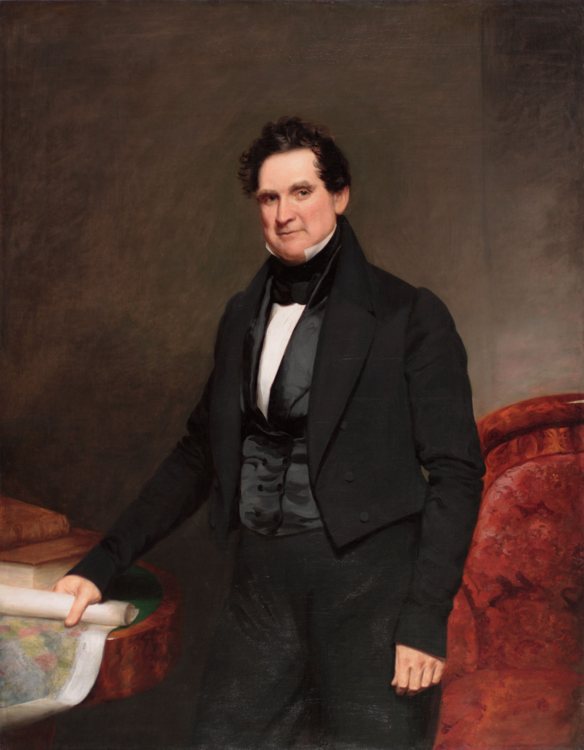 Official Gubernatorial portrait of New York Governor William L. Marcy.